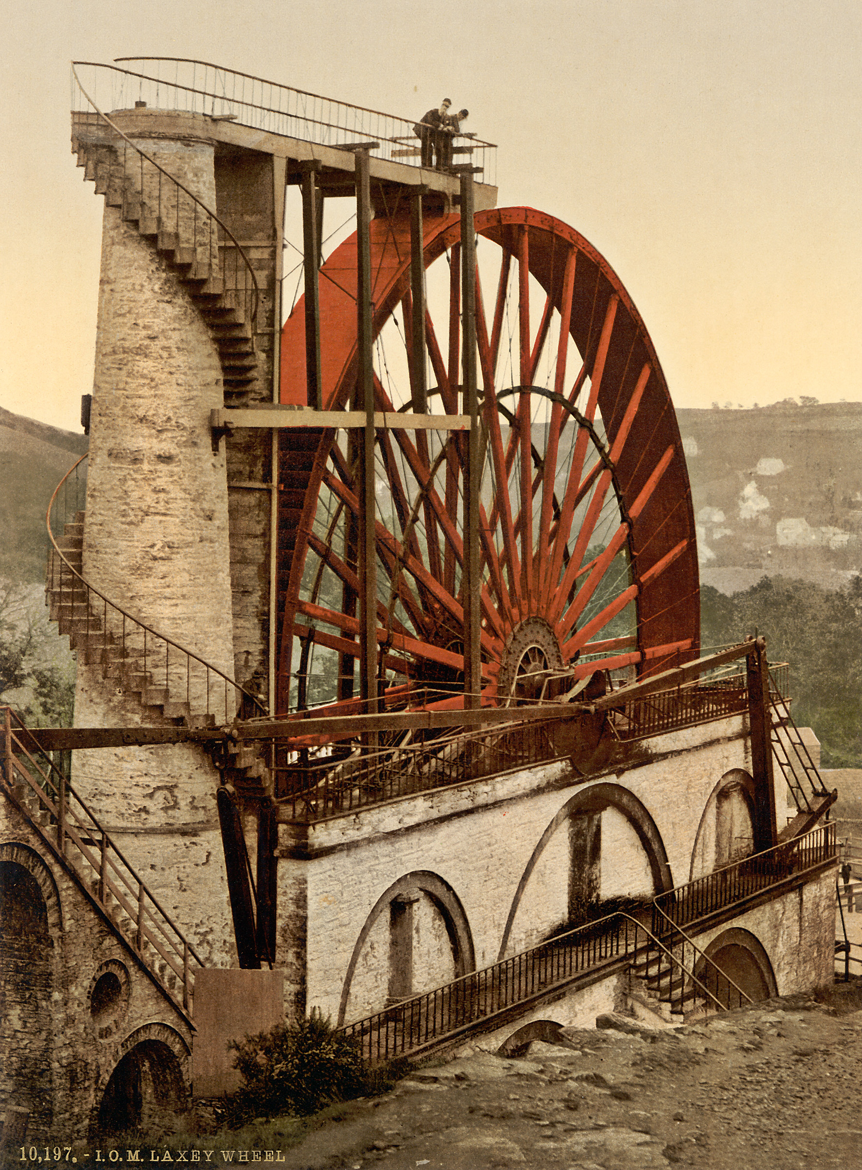 The Wheel, Laxey, Isle of Man Print no. "10197"